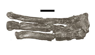 Bauxitornis mindszentyae (Aves, Enantiornithes), right tarsometatarsus (holotype, MTM V 2009.38.1) in anterior view. Inaccurately labelled as left tarsometatarsus in source.